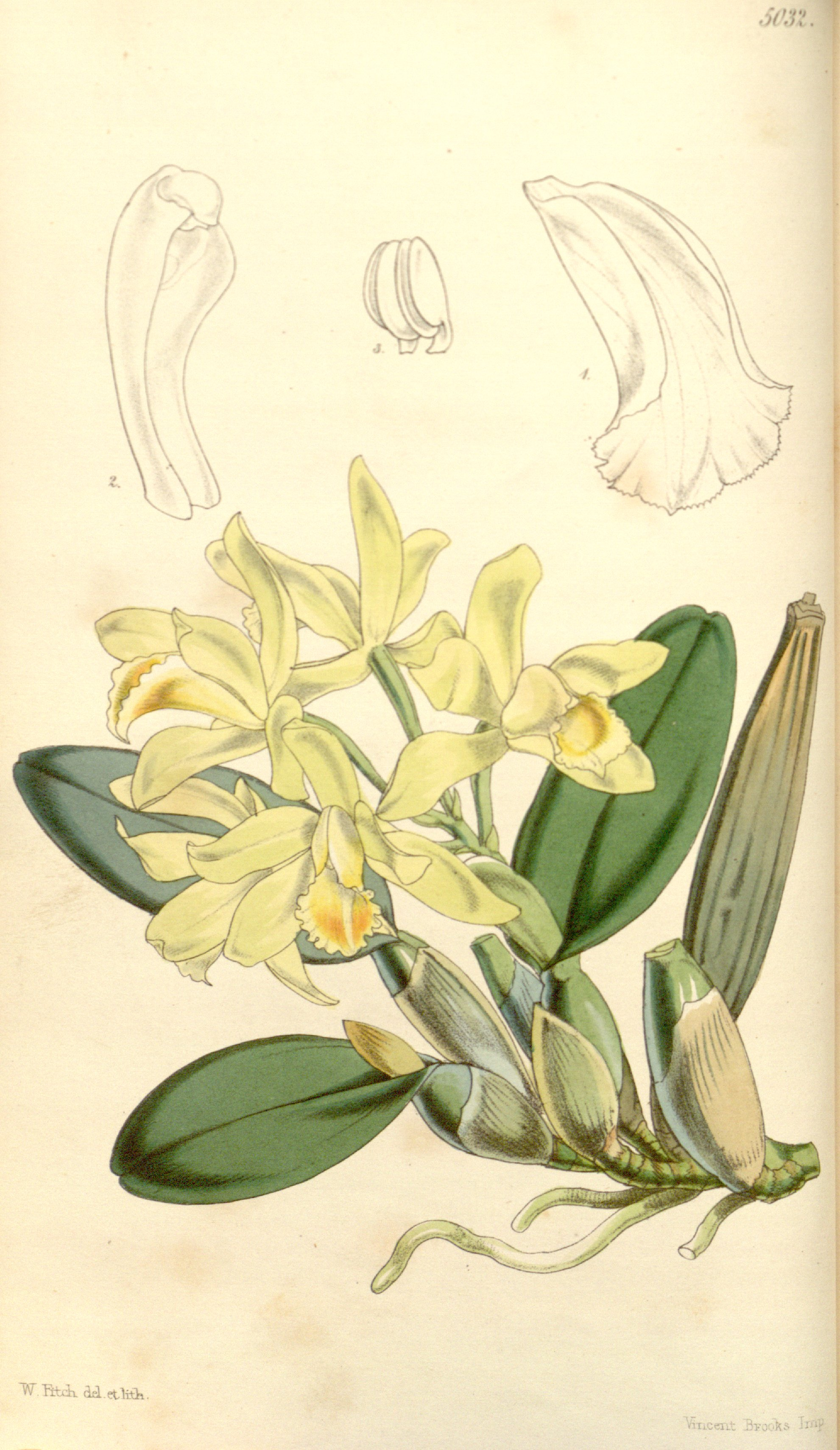 Pale Yellow Cattleya